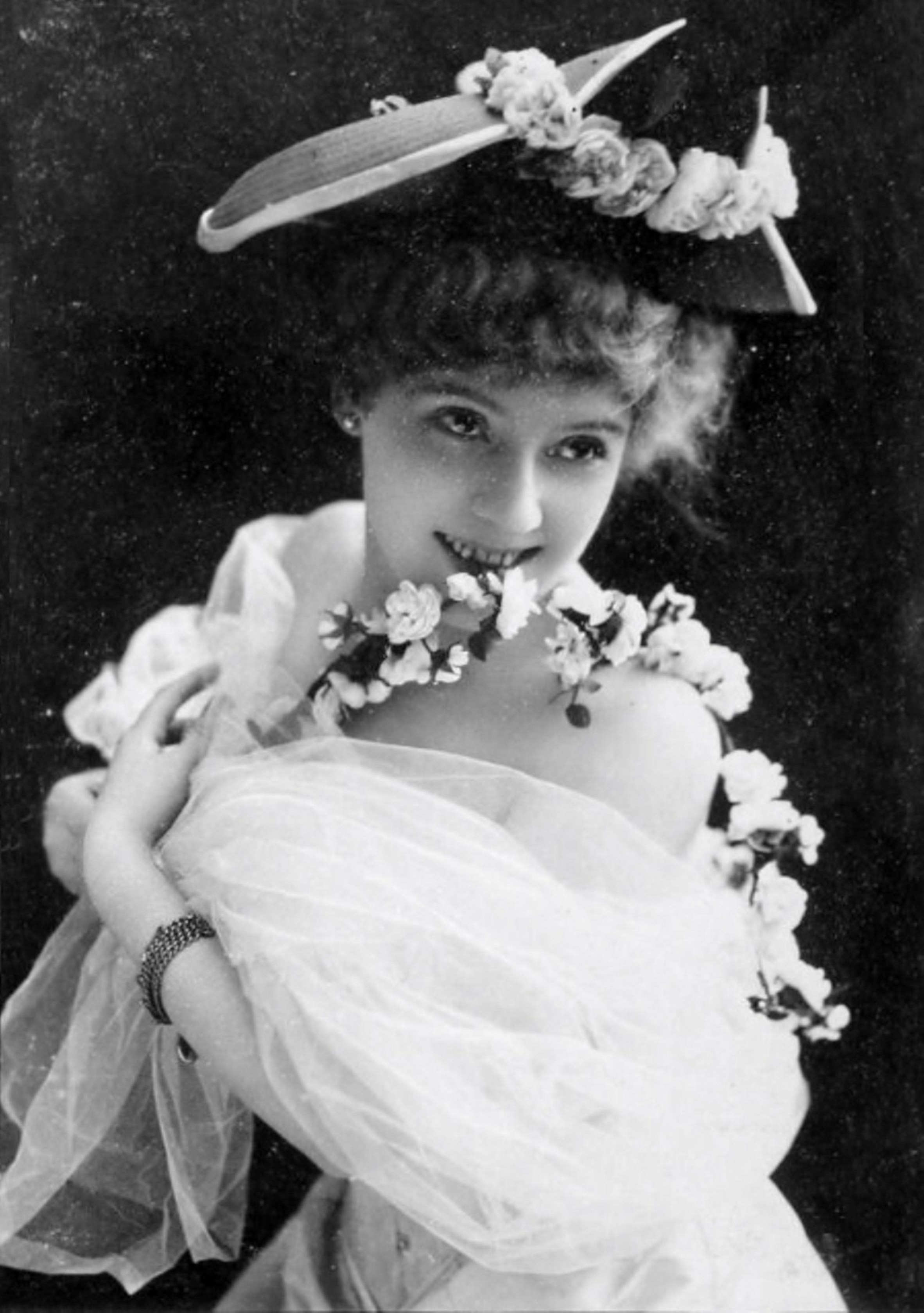 Amélie Diéterle is a French actress born in Strasbourg on February 20, 1871 and died in Cannes on January 20, 1941. She was legitimated in Paris in 1892 by Captain Louis Laurent, Knight of the Legion of Honor. Amélie Diéterle married in Vallauris on June 16th, 1930 with André Simon (1877-1965). Amélie Diéterle plays mainly at the Théâtre des Variétés in Paris during the Belle Époque.